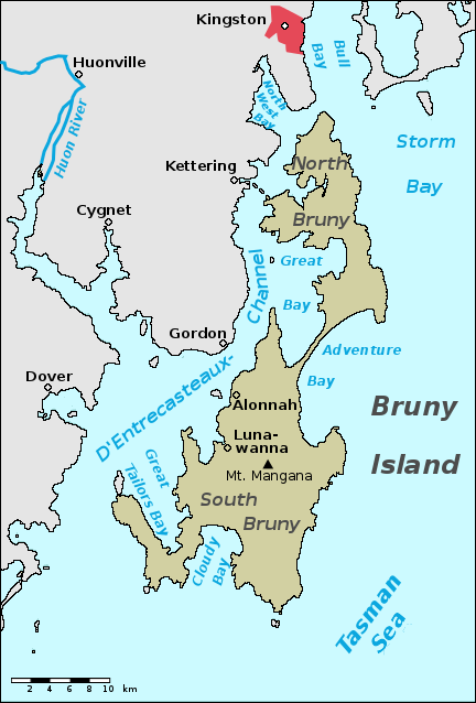 Map of Bruny Island, located on the Tasmanian east coast